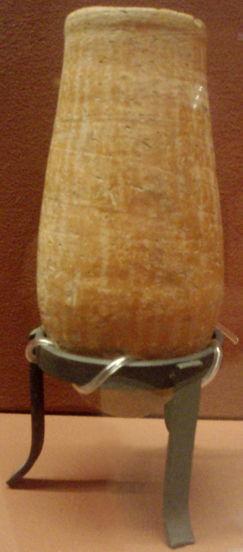 A beer jar, made from fired Nile silt. RC 193. Egyptian antiquities in the Rosicrucian Egyptian Museum, California.